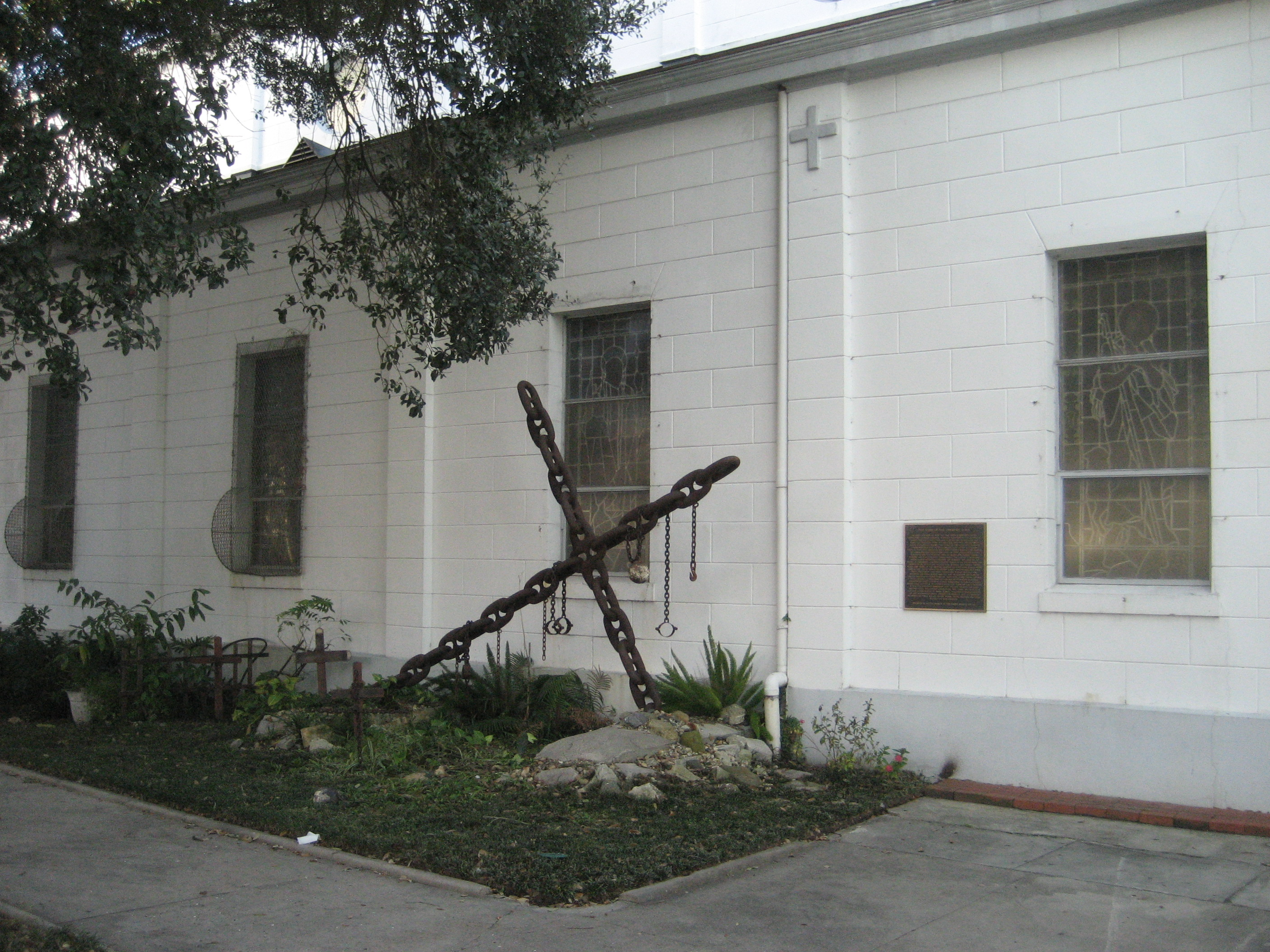 Treme neighborhood of New Orleans. "Tomb of the Unknown Slave", monument to victims of slavery, on side St. Augustine Church